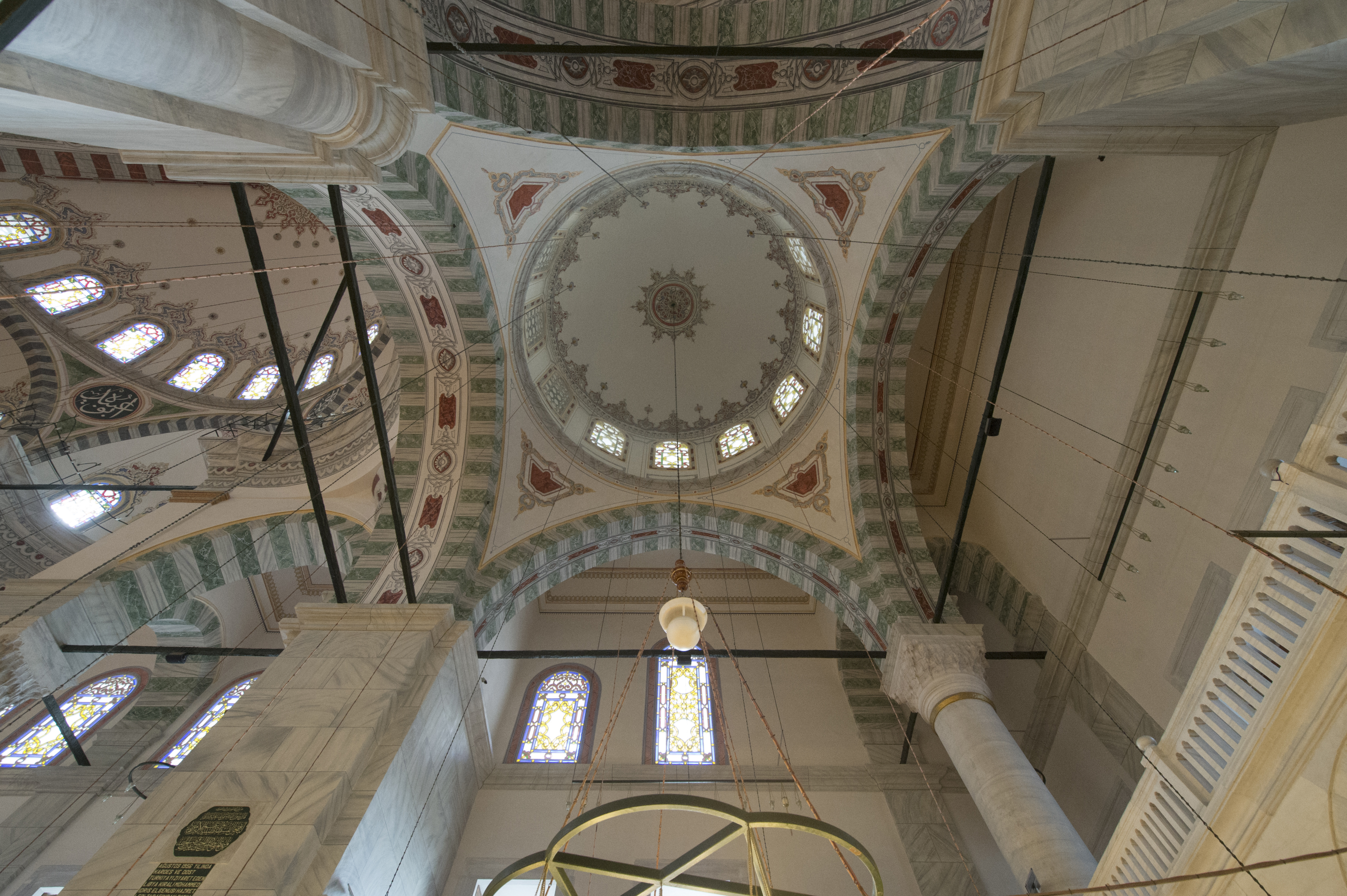 Looking up for a wide angle shot